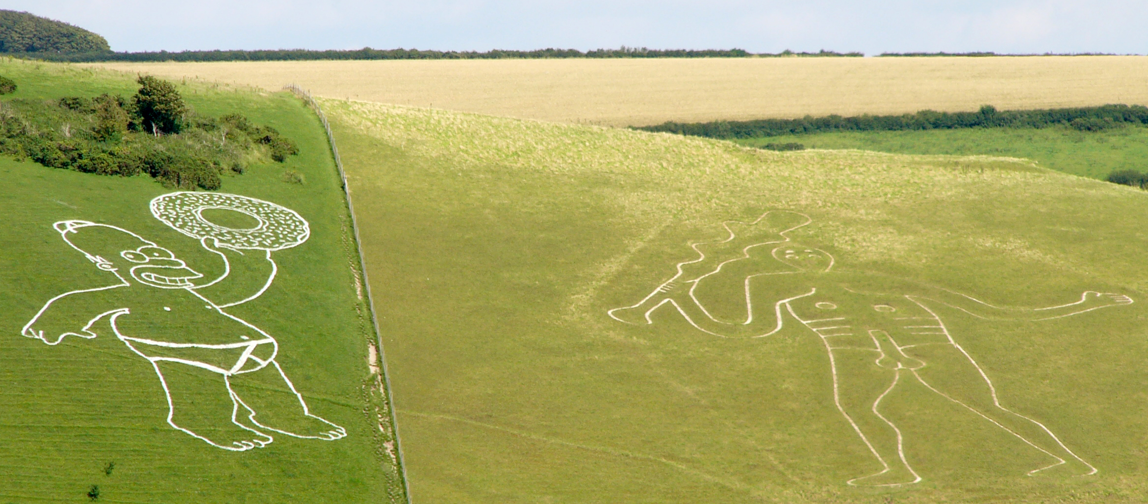 Photograph by Tim Bunce, can seen online here. Licenced under Creative Commons Attributes licence.